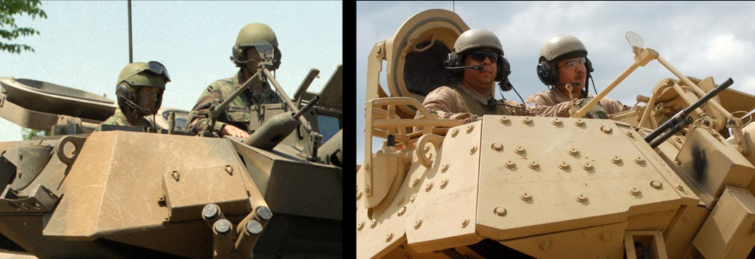 Comparison between early M2 turret armor and M2-Version (or later). Based on PD images by US Army (1, 2)